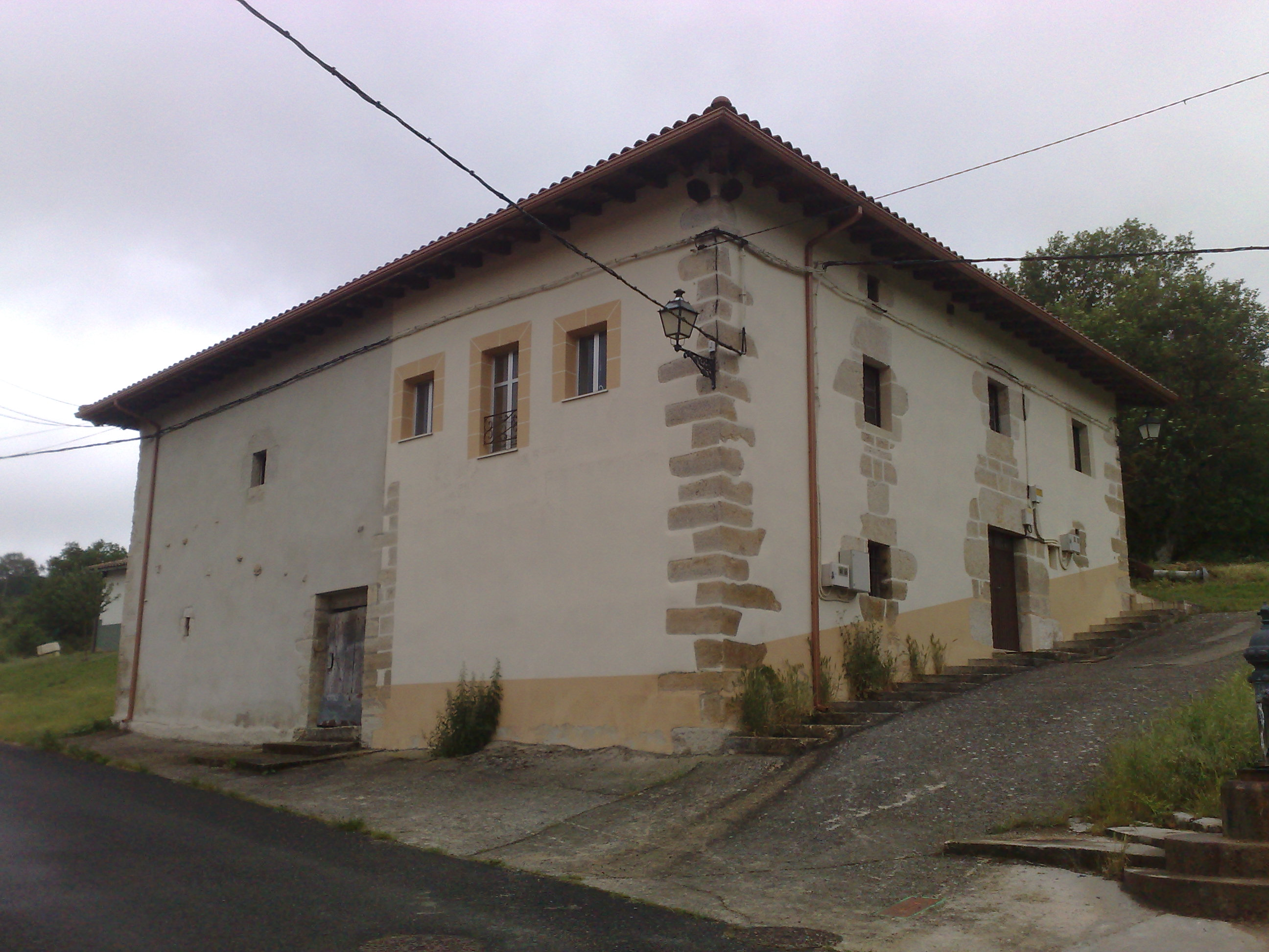 Old Council Hall of Laminoria Valley, Zekuiano, Arraia-Maeztu, Araba, Basque Country. Noew it is just the meeting place for the administrative board of this little village.